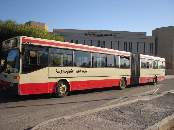 Jordan University of Science and Technology. Mercedes-Benz O 405 G bus in Ar Ramtha, Jordan.